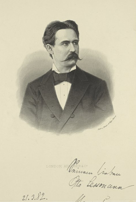 The portrait of German pianist and composer Franz Xaver Scharwenka (1850—1924) (after the photograph by Julius Schaarwächter) signed to musical critic Otto Lessman (1844—1918) and dated of 21.3. 82.